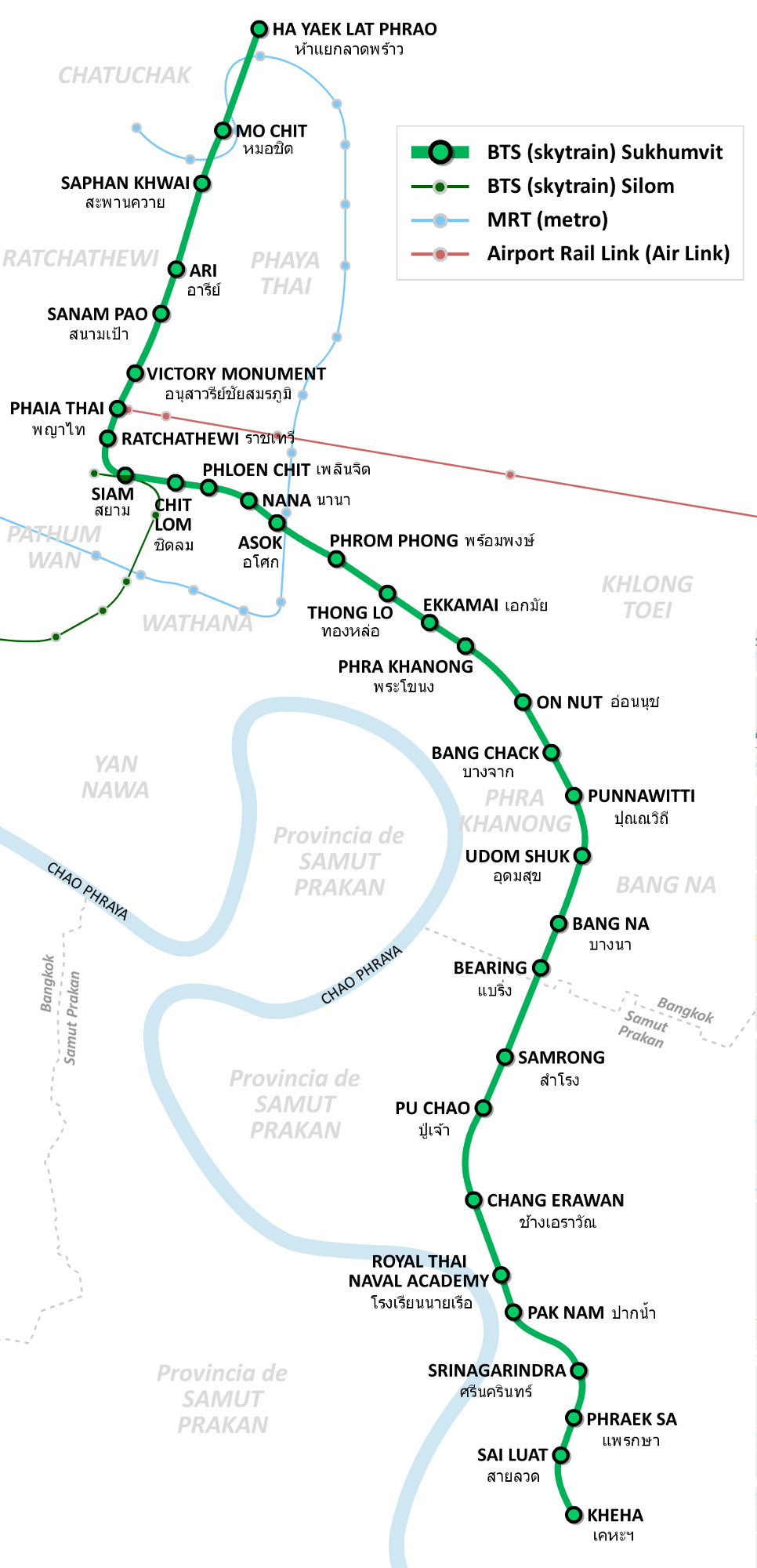 Skytrain (BTS) Sukhumvit line, Bangkok, Thailand